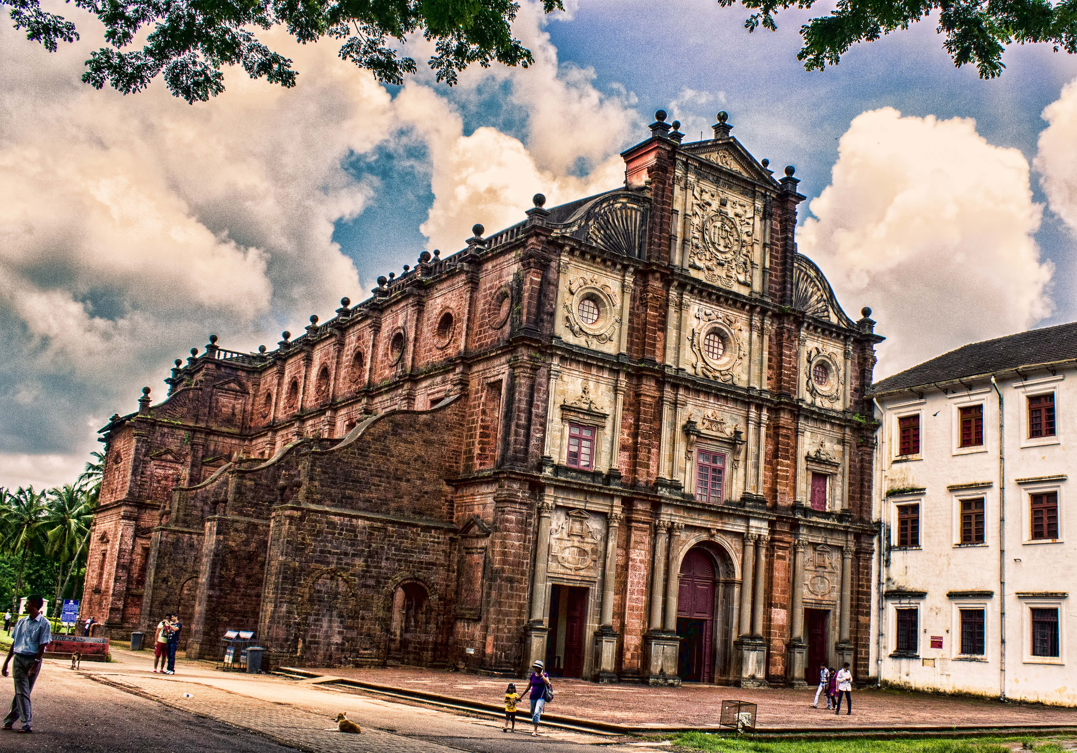 Basilica of Bom Jesus, Ponda, Old Goa, India